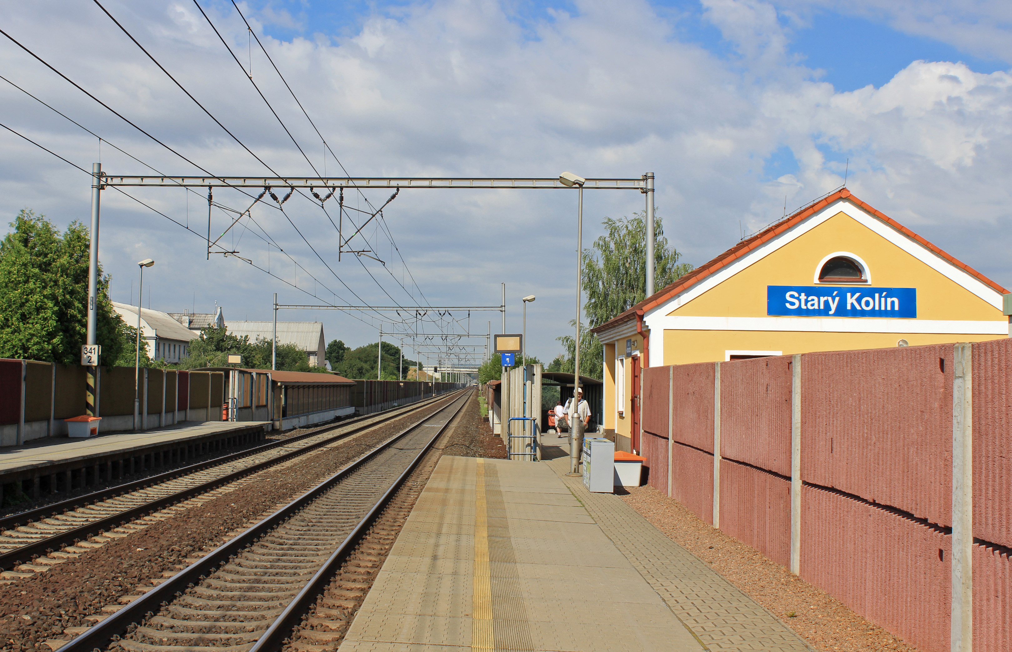 Train station in Starý Kolín, Czech Republic.